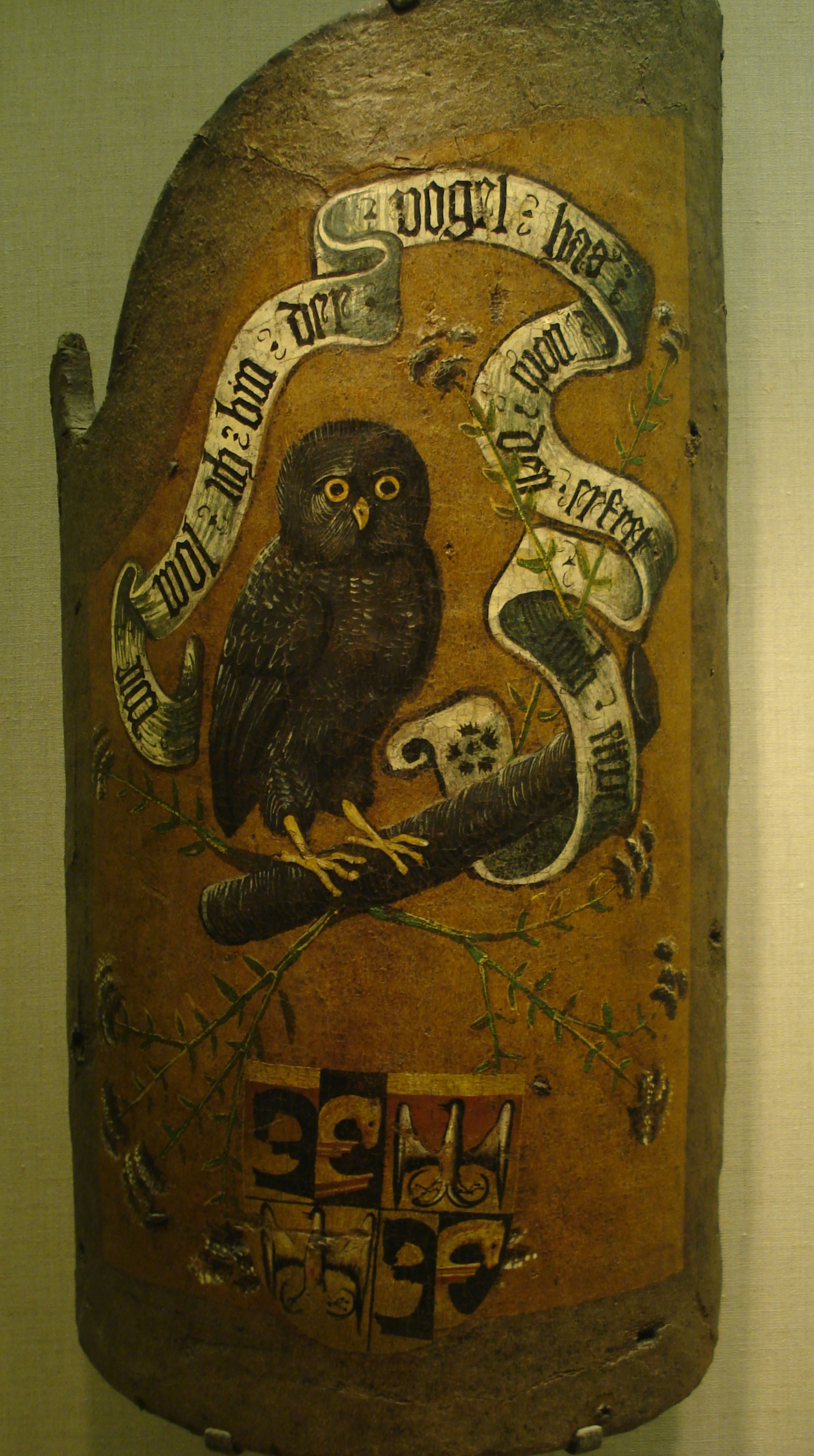 Wooden jousting targe bearing the coat of arms of the Tanzel and Rindscheit families and the German words: WIE. WOL. ICH. BIN. DER. VOGEL. HAS. NOCH. DEN. ERFRET. MICH. DAS. (Though I am hated by all birds, I nevertheless rather enjoy that.) Materials: wood, pigskin, burlap, gesso, paint. Hungarian. Circa 1500.